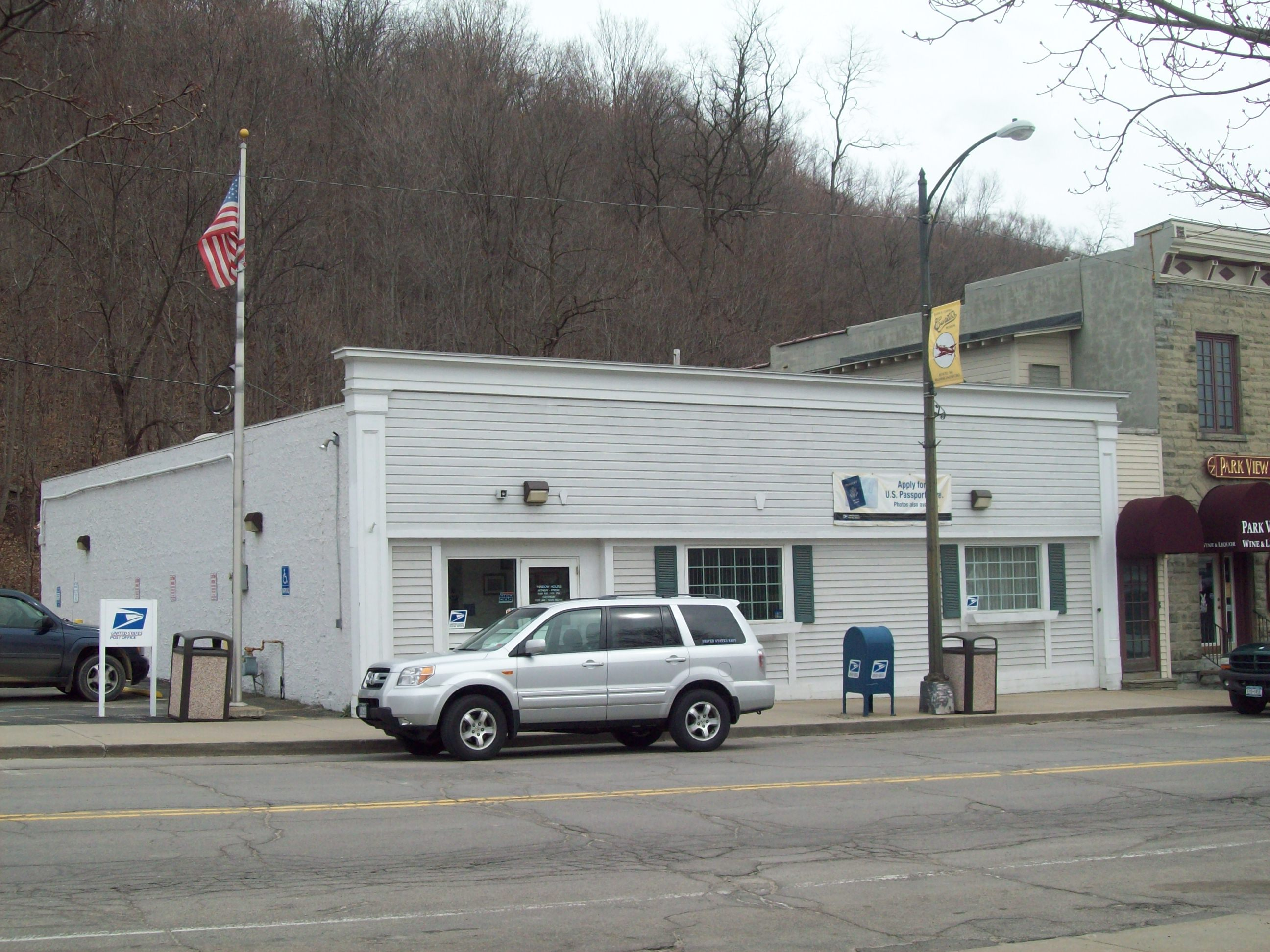 U.S. Post Office Hammondsport, New York, April 2011